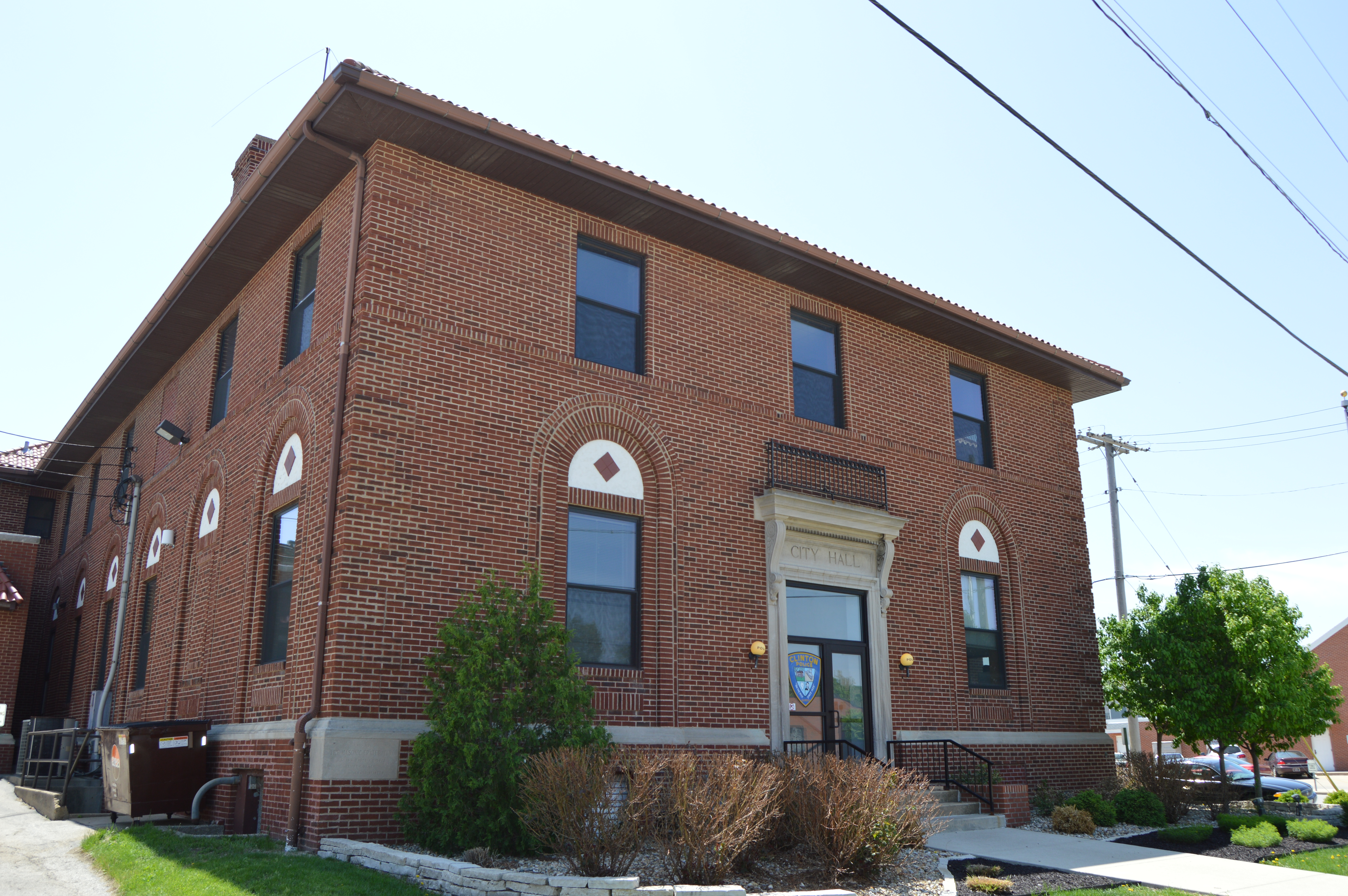 Front and eastern side of City Hall in Clinton, Illinois, United States. Located at 118 W. Washington Street, it was built in 1923.